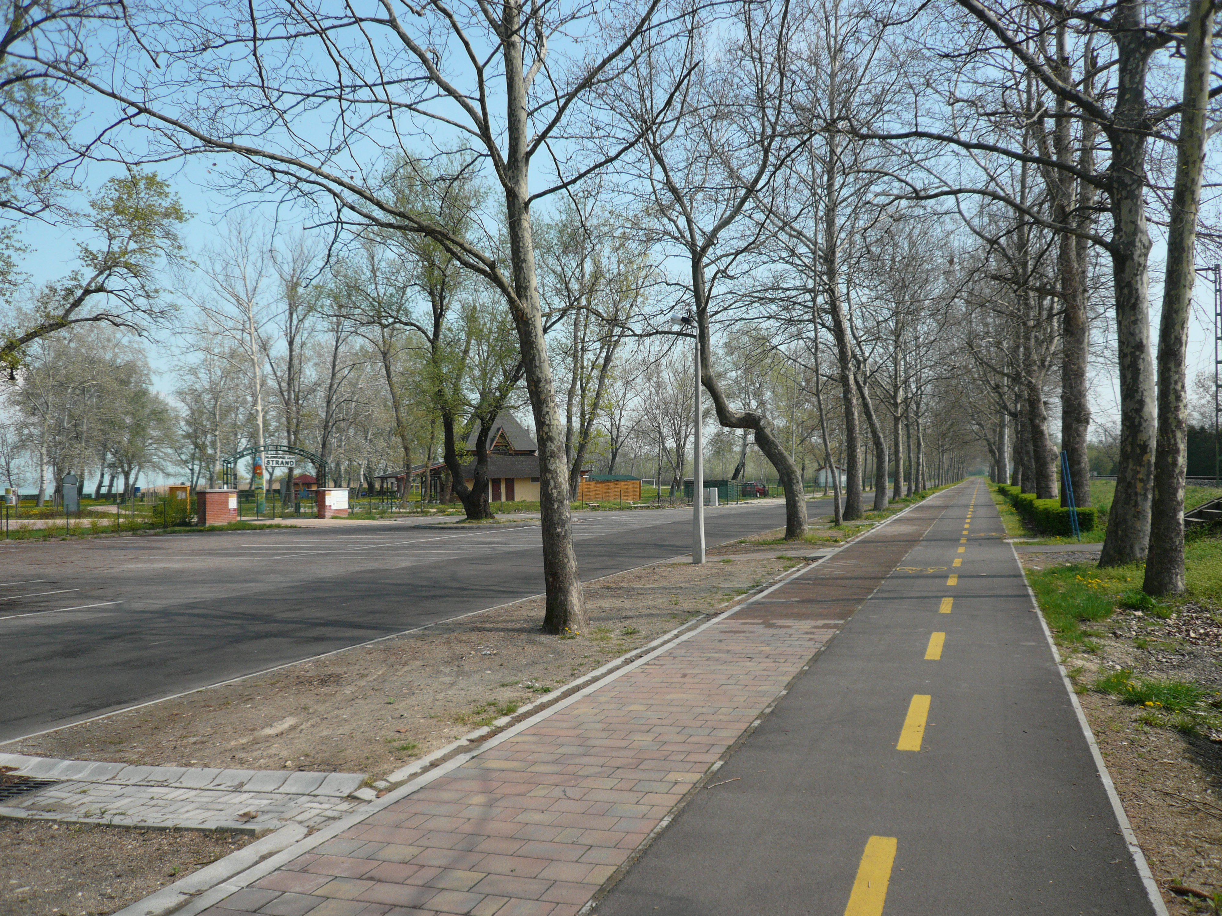 Balaton cycling route near Balatonföldvár